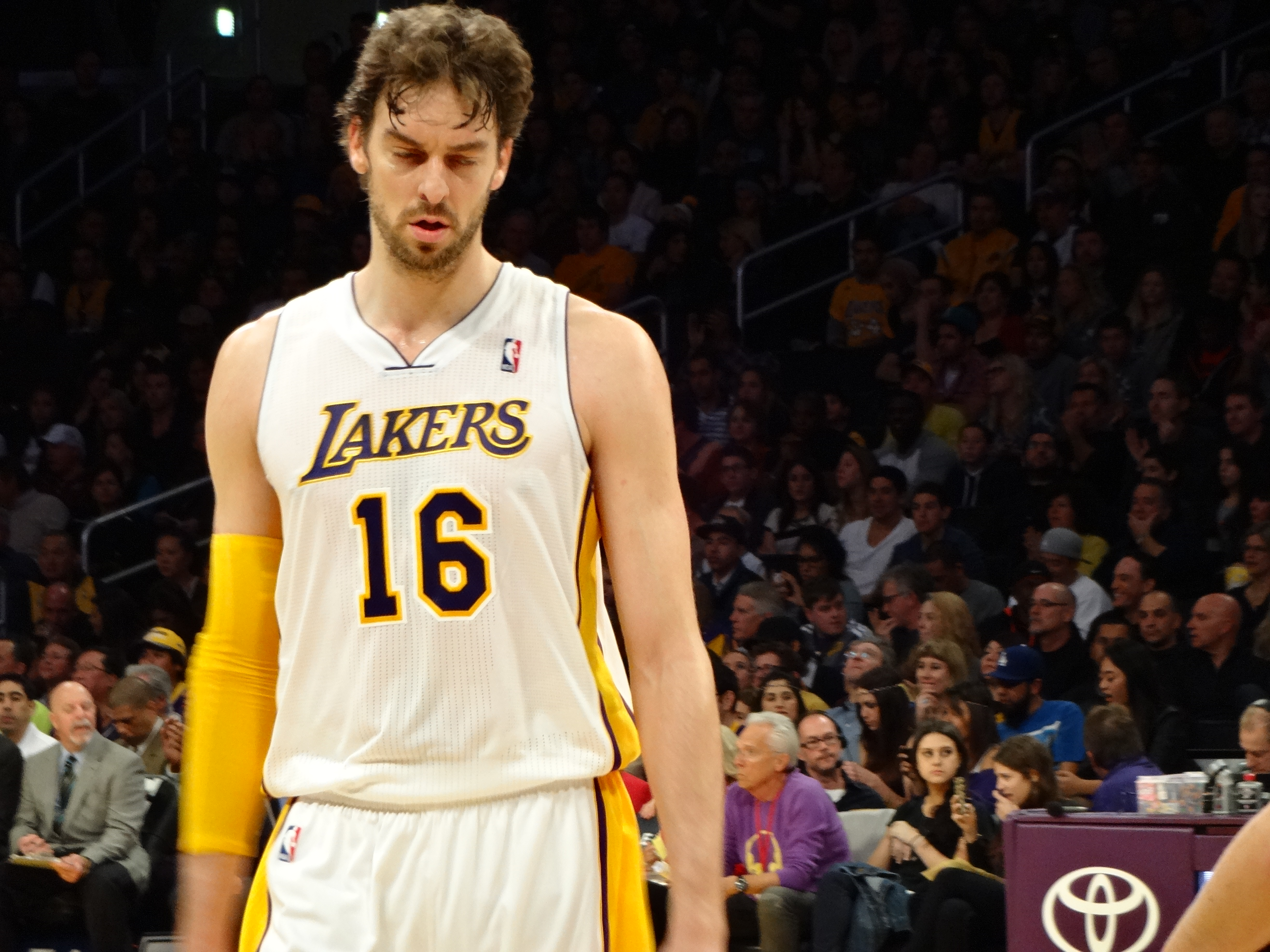 Los Angeles Lakers vs Denver Nuggets at the Staples Center. Pau Gasol.